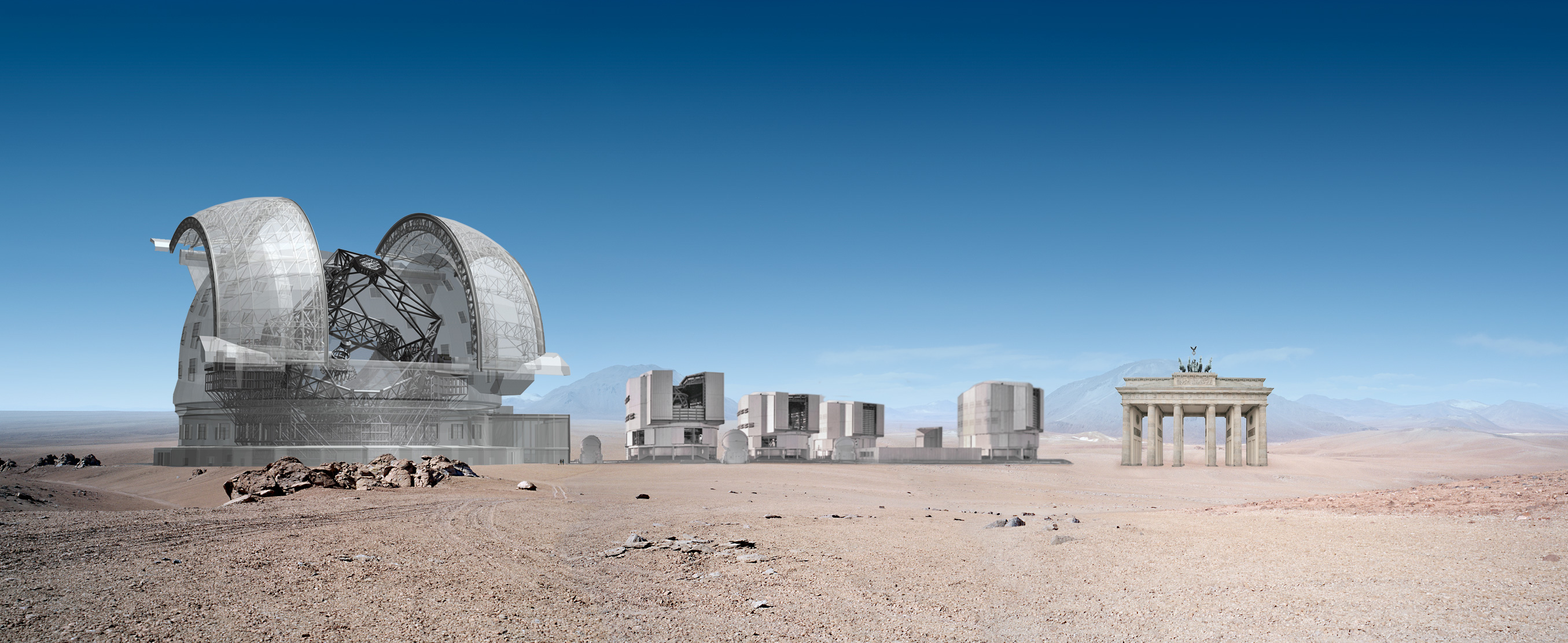 E-ELT and VLT sizes compared with Brandenburger Tor.